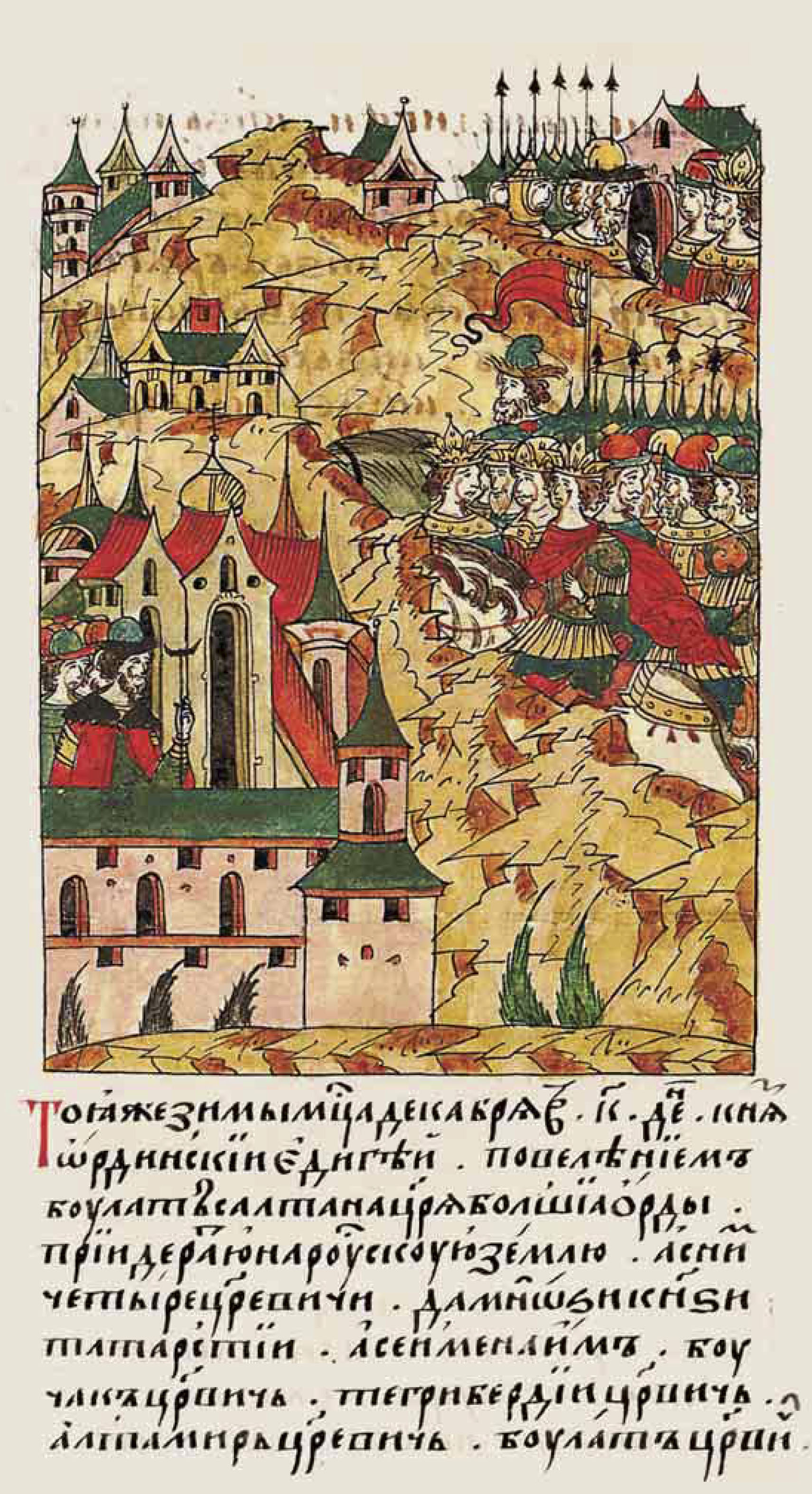 Edigu war